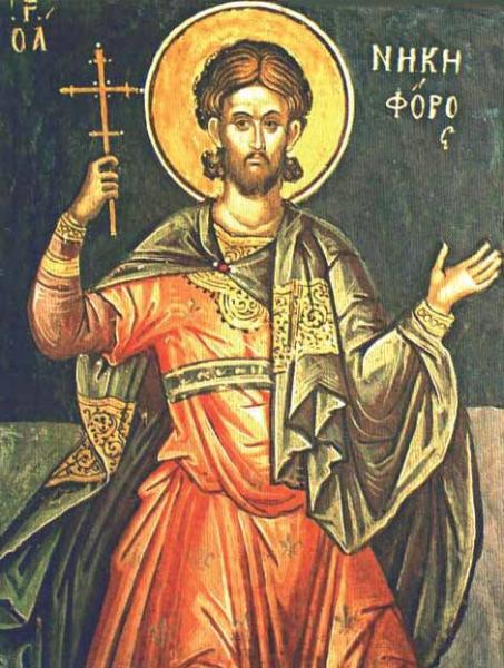 St. Nikifor of Antioch